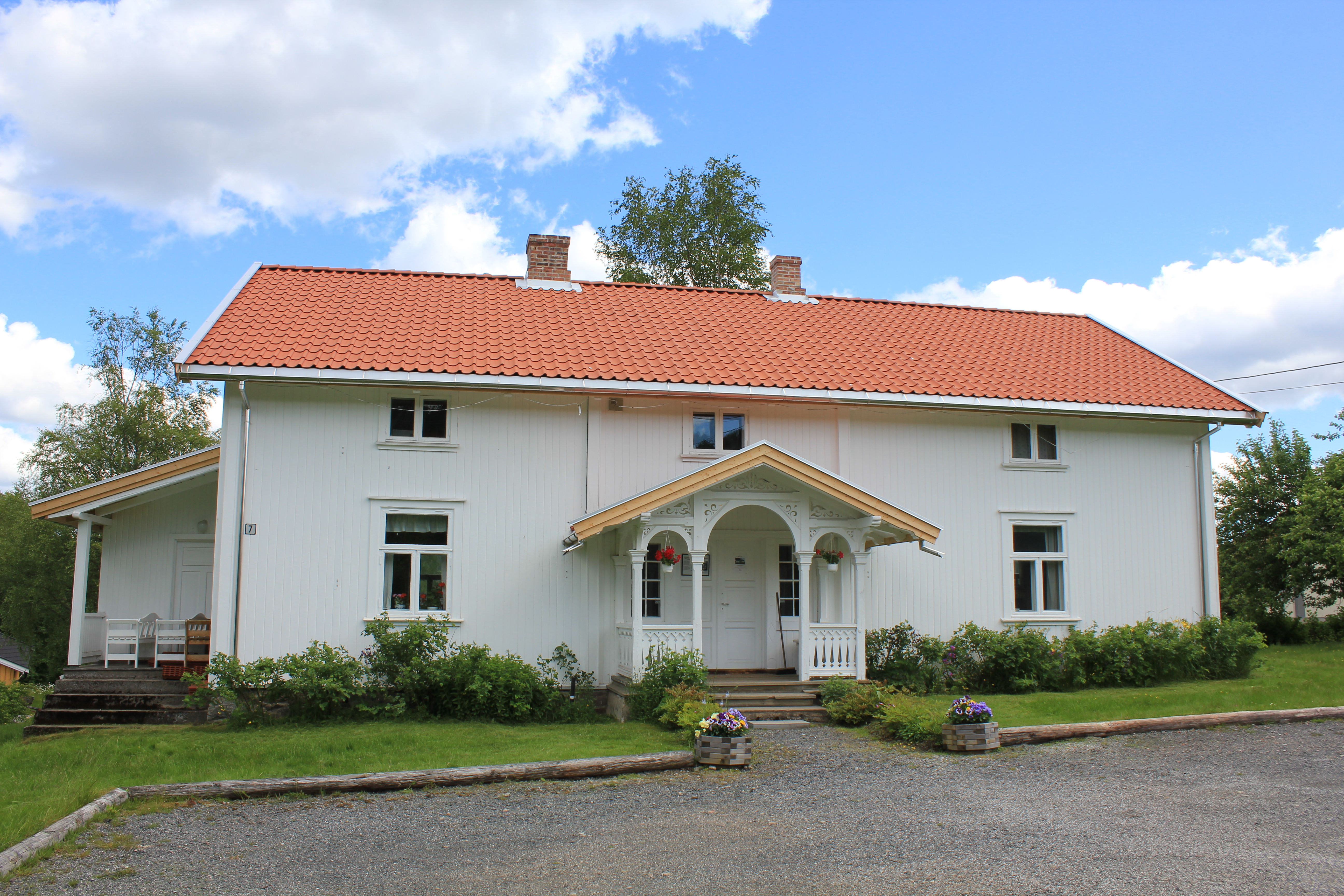 The birth and childhood home of the Norwegian author Sigurd Hoel, in Nord-Odal, Hedmark. He was born here in 1890.